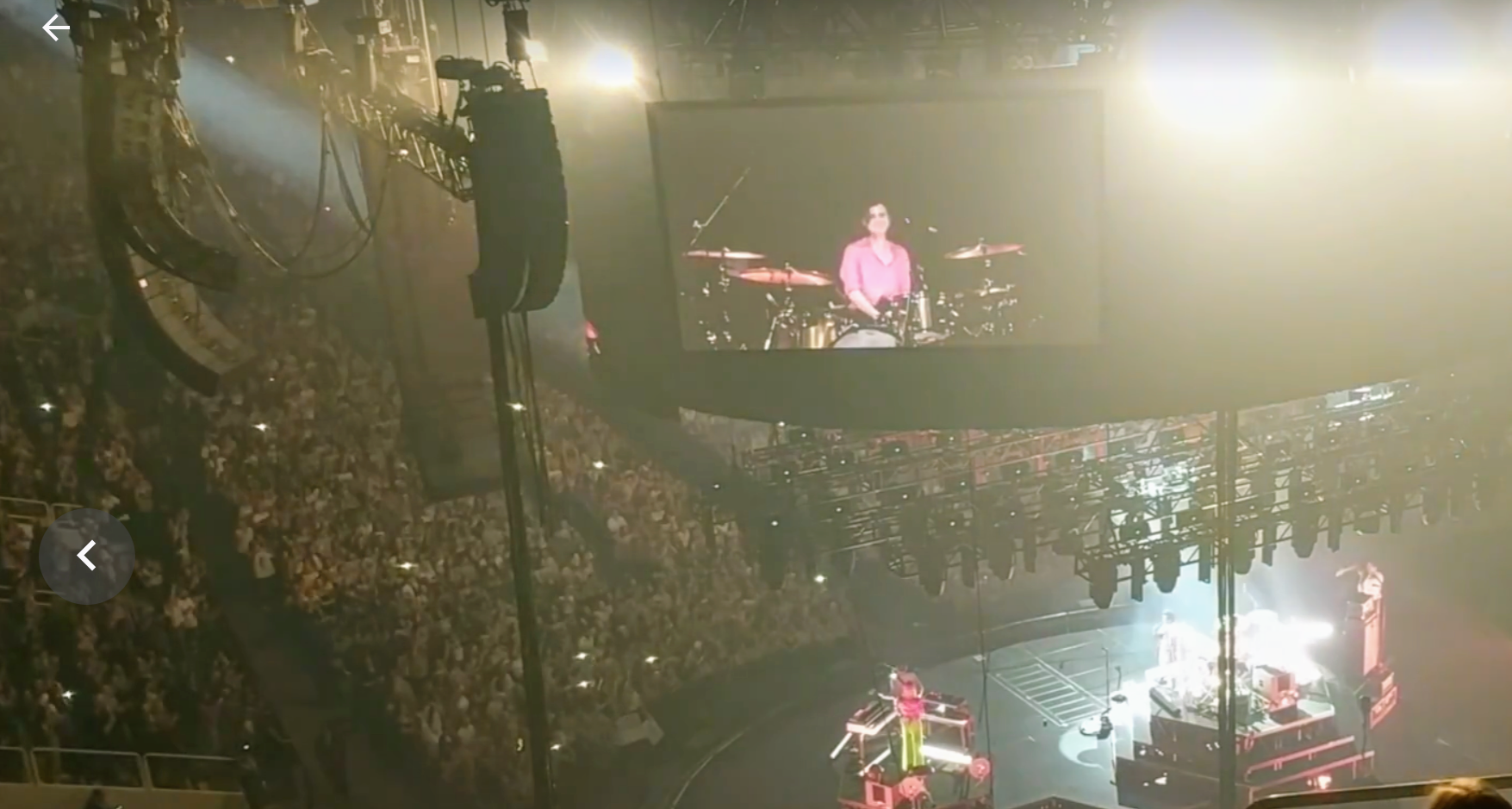 This photo is a frame from a video shot by me on Wednesday July 11 at the SAP Center in San Jose, California.